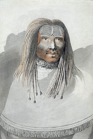 "A Man of Nootka Sound (British Columbia)" Drawing by John Webber, Captain Cook's official artist, c. 1778.